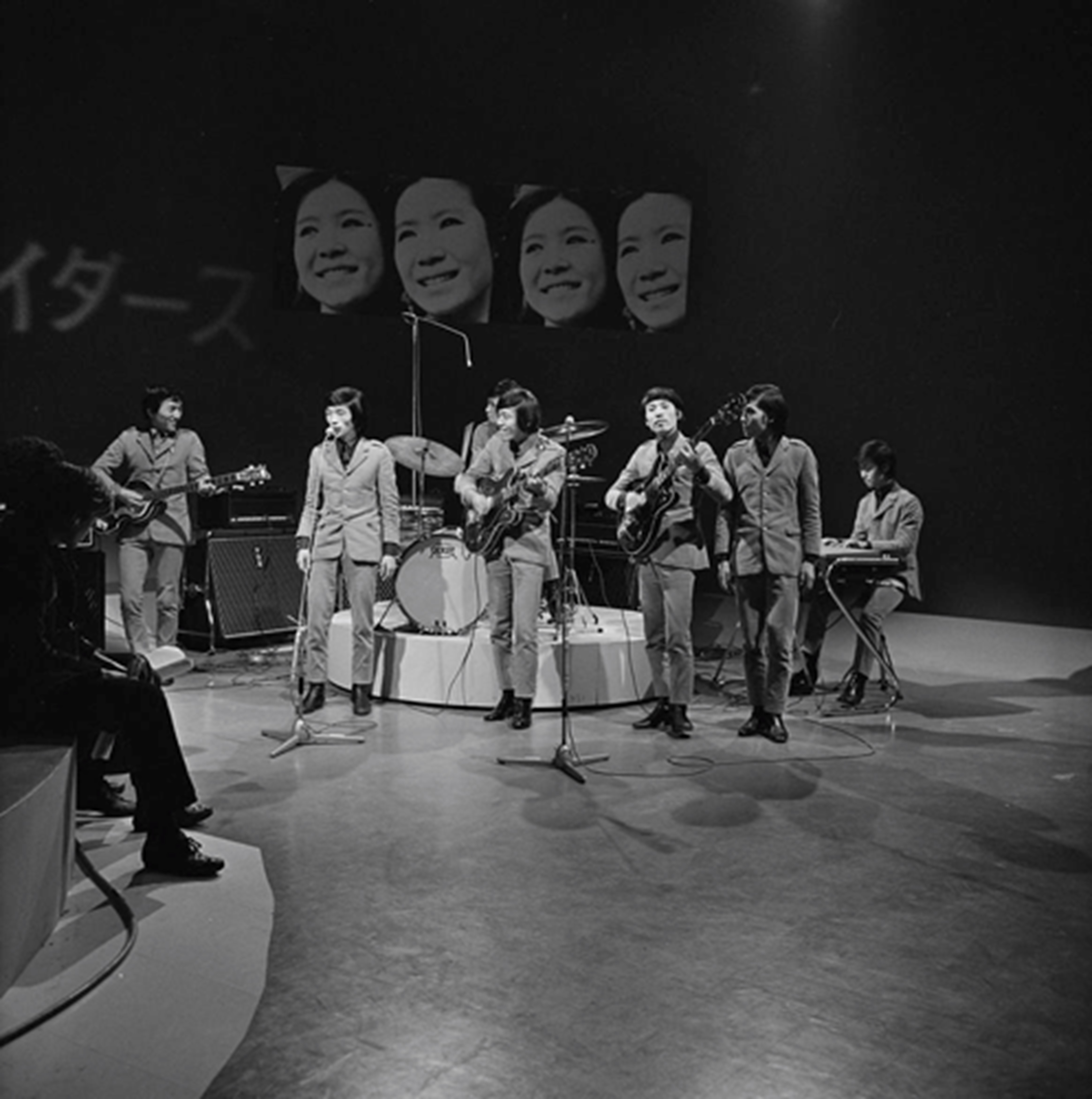 Japanese group The Spiders performing the songs "Sad sunset" en "Boom boom" in Dutch TV programme Fanclub. Registered 12 Nov. 1966, broadcast 18 Nov. 1966.